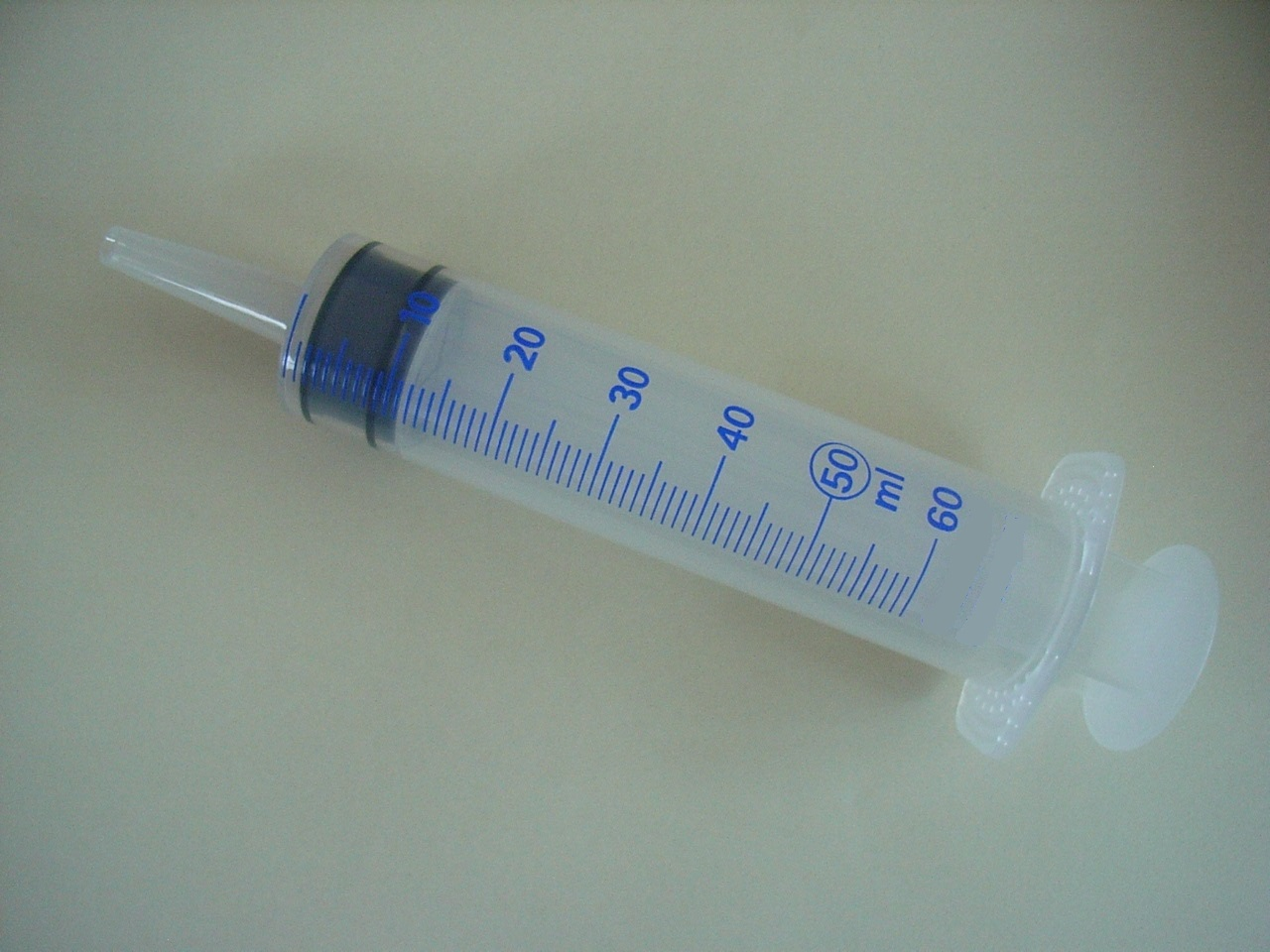 Irrigation syringe